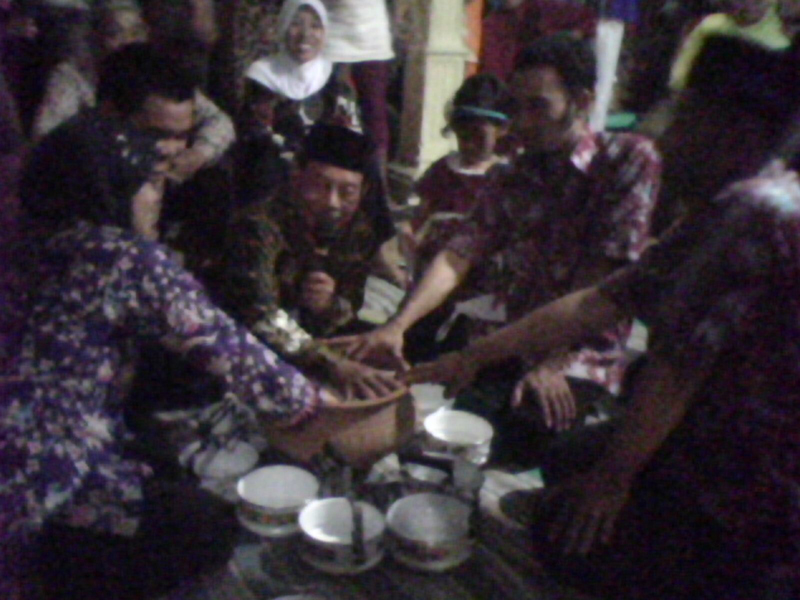 Tumplek Kunjen